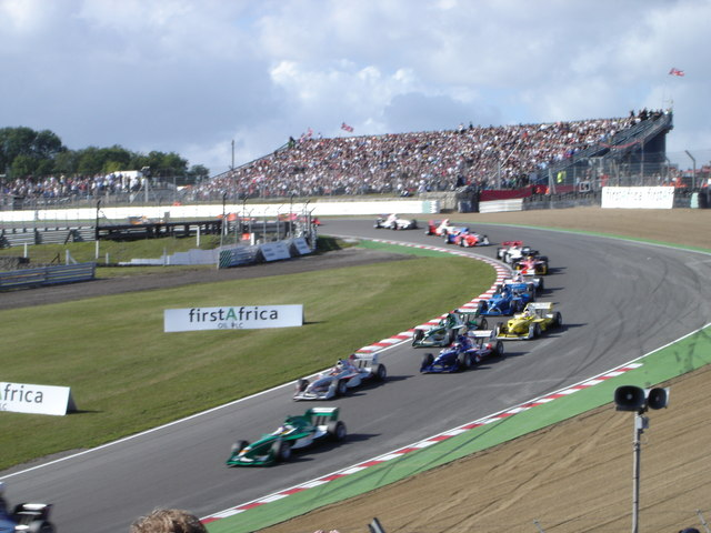 A1GP race at Brands Hatch This was the first ever A1GP race anywhere in the world. Historical as well as geographical value!